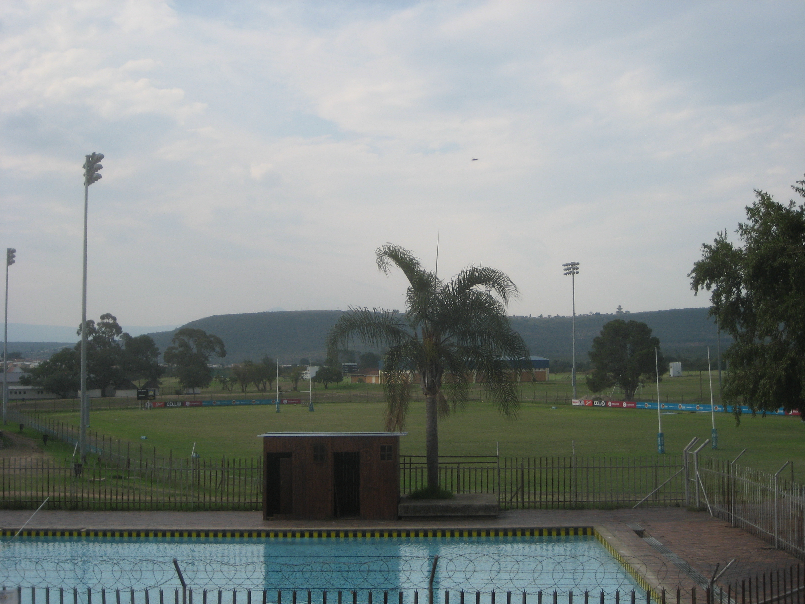 University of Fort Hare, rugby field and swimming pool